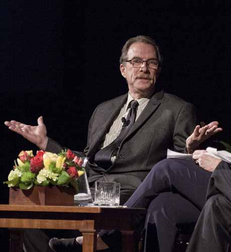 Acclaimed photographer Lucian Perkins presented his work at the LBJ Presidential Library